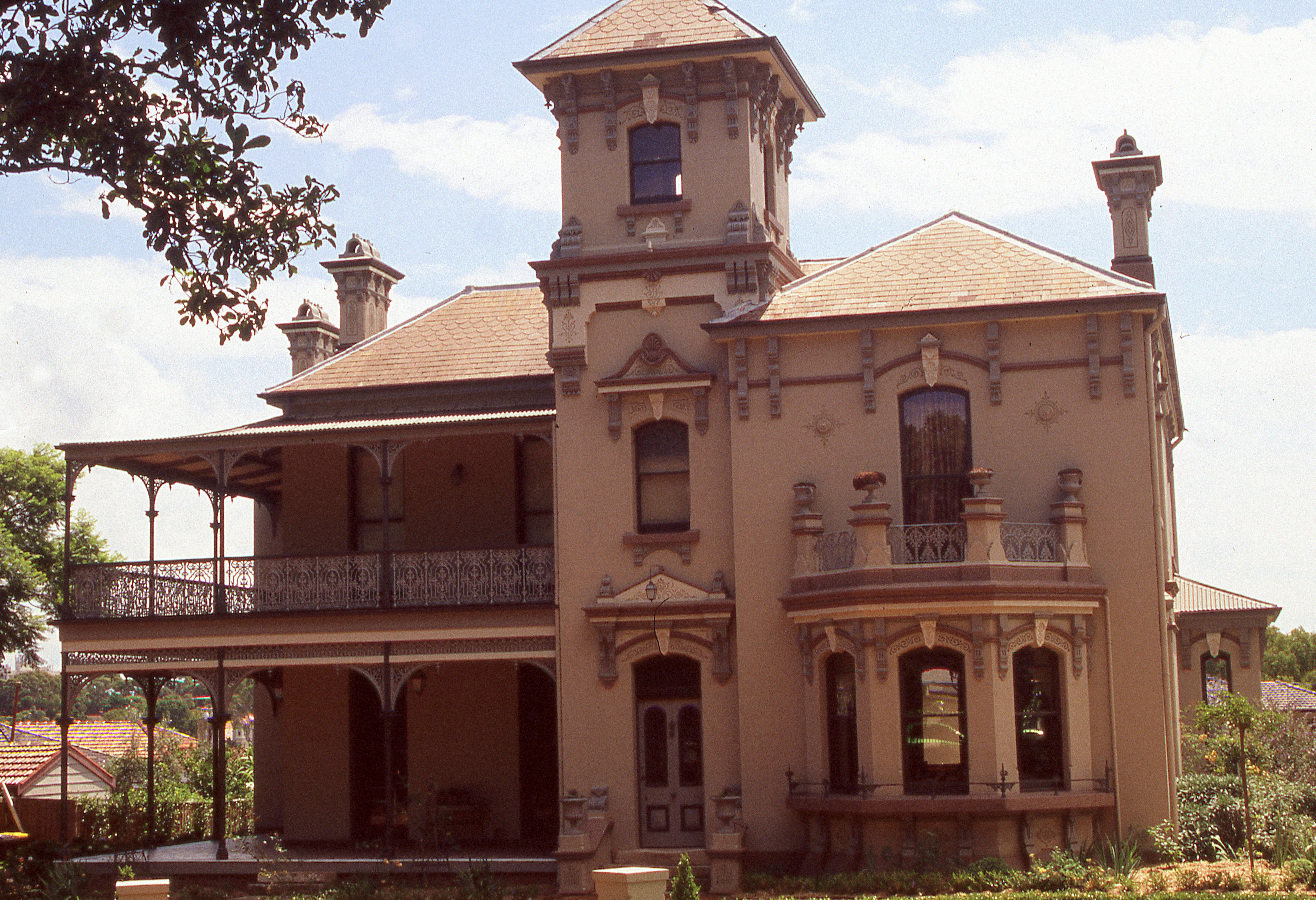 The Priory, Burwood Road, Burwood, Sydney (Kodachrome slide scanned at 6400)